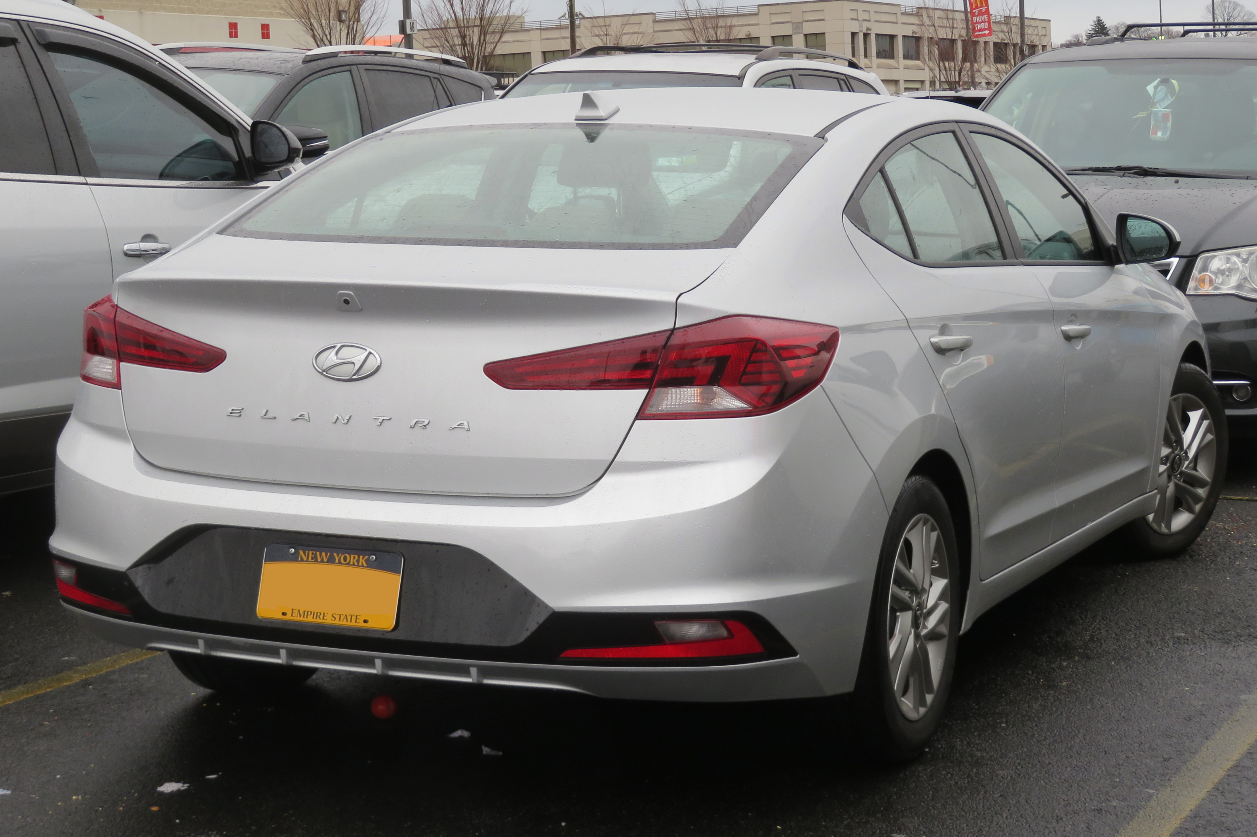 Photographed in College Point (Queens), New York